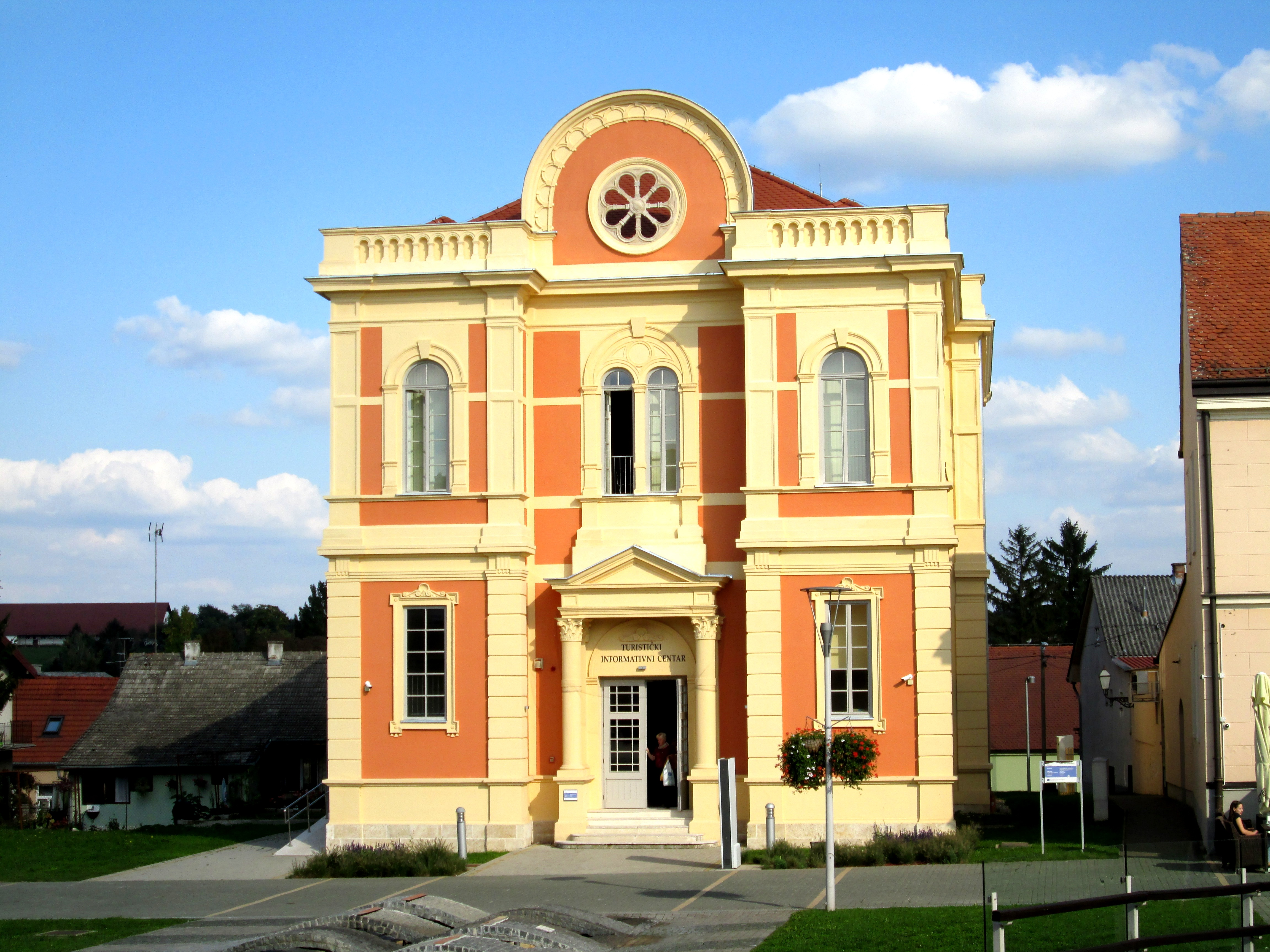 Touristic information centre in Krizevci, Croatia. It is synagogue in the past.